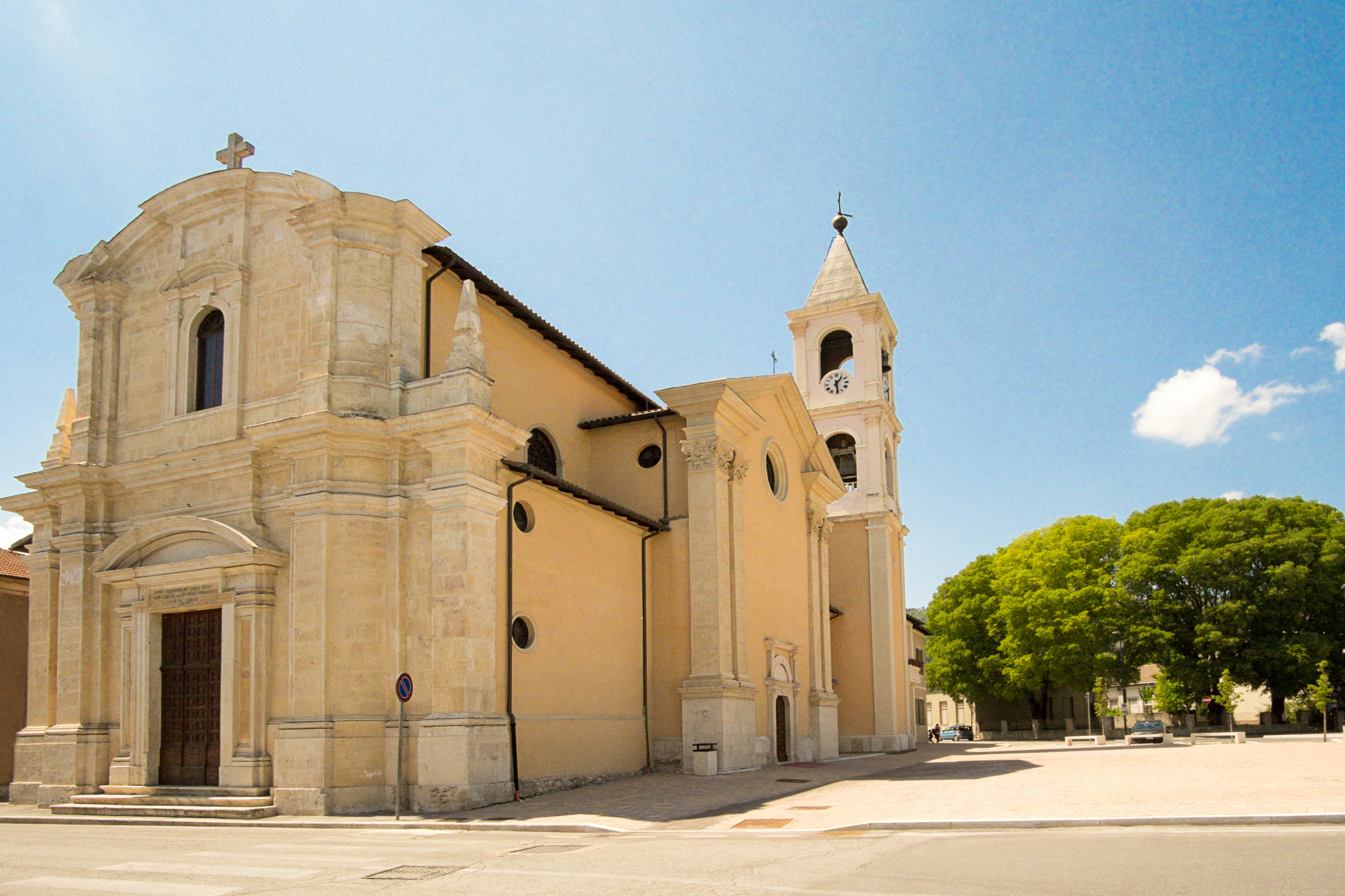 Saint John church, Avezzano, Abruzzo, Italy